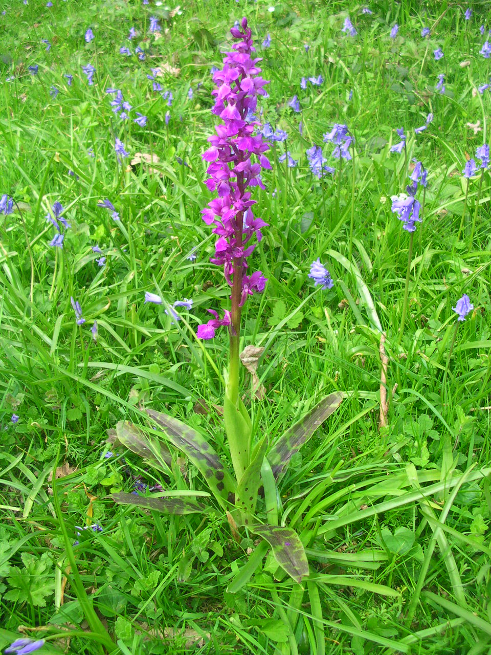 Orchis mascula in woods near Tillington, West Sussex, England.